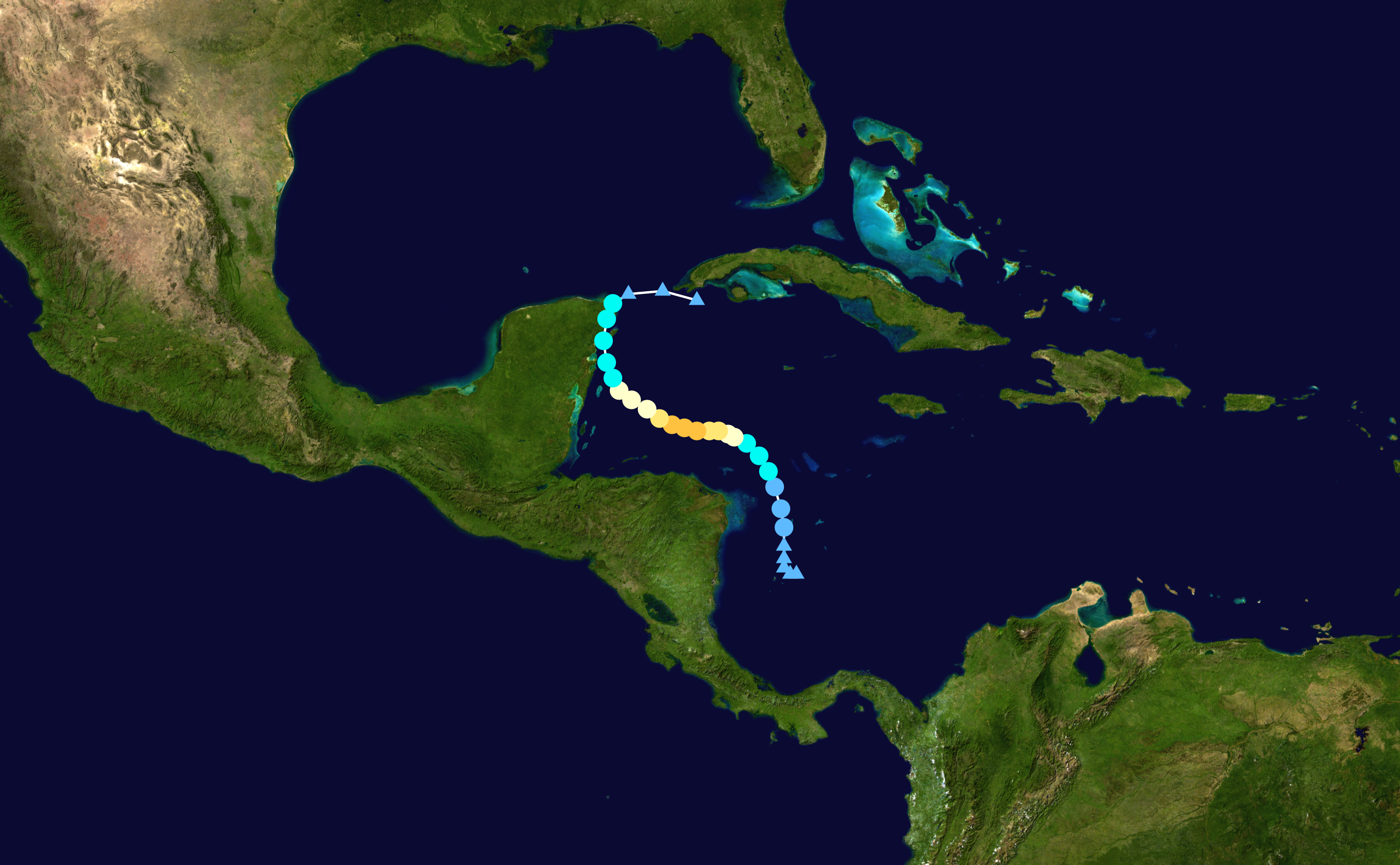 Track map of Hurricane Rina (2011) of the 2011 Atlantic hurricane season. The points show the location of the storm at 6-hour intervals. The colour represents the storm's maximum sustained wind speeds as classified in the Saffir–Simpson scale (see below), and the shape of the data points represent the nature of the storm, according to the legend below. Saffir–Simpson scale Tropical depression≤38 mph≤62 km/h Category 3111–129 mph178–208 km/h Tropical storm39–73 mph63–118 km/h Category 4130–156 mph209–251 km/h Category 174–95 mph119–153 km/h Category 5≥157 mph≥252 km/h Category 296–110 mph154–177 km/h Unknown Storm type Tropical cyclone Subtropical cyclone Extratropical cyclone / Remnant low / Tropical disturbance / Monsoon depression